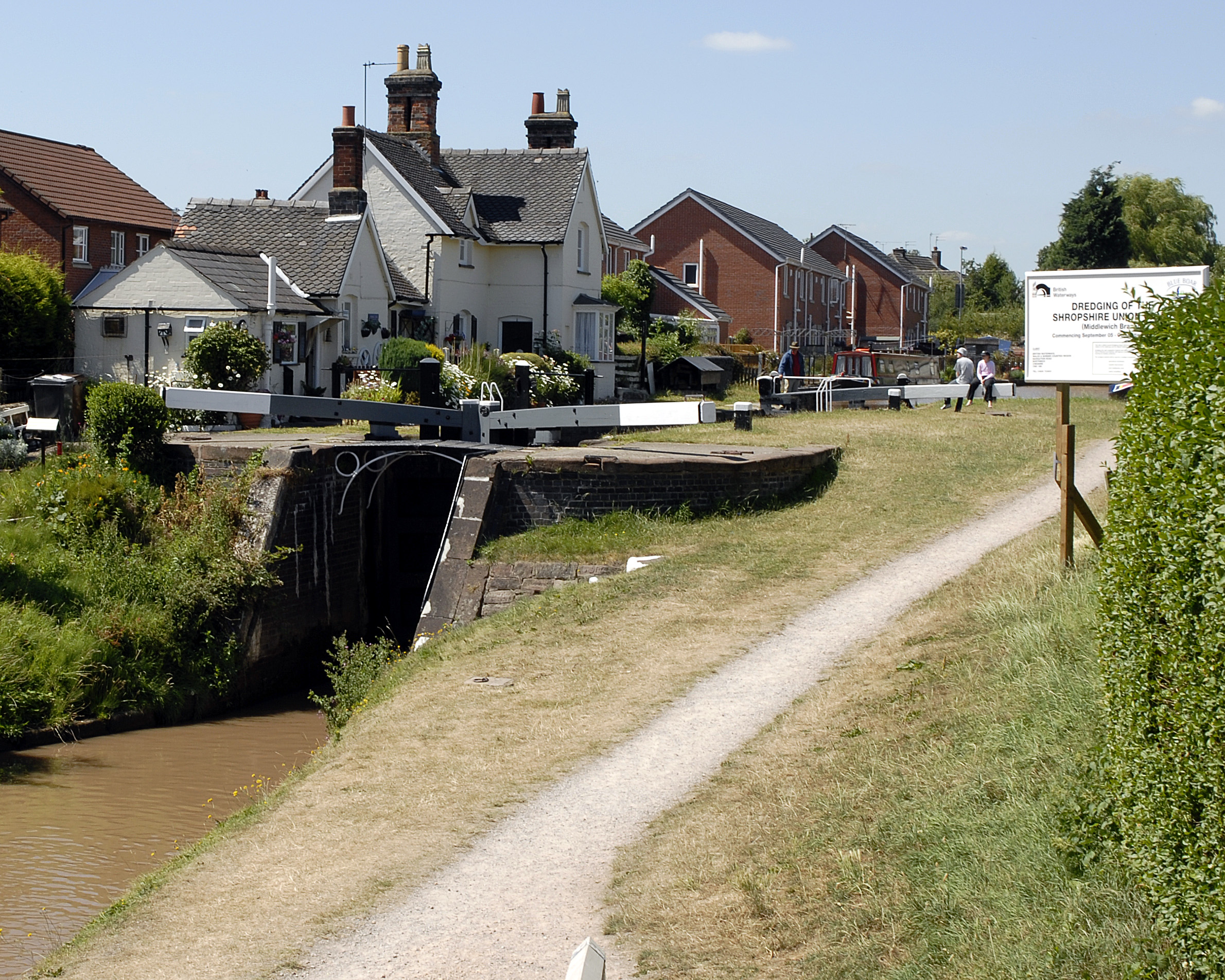 Wardle Lock in Middlewich. Photograph taken by self. 2006